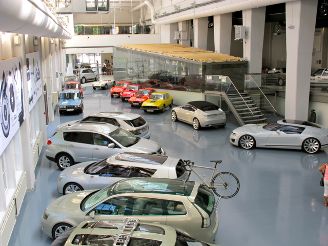 Saab Car Museum in Trollhättan in Sweden: Exhibition